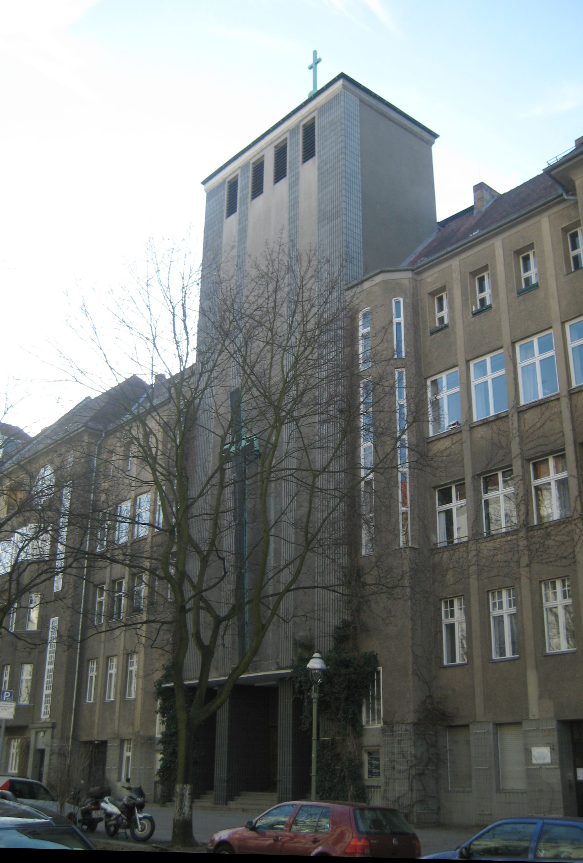 Altlutherische Kirche Zum heiligen Kreuz (Lutheran Holy Cross Church) in Nassauische Straße in Berlin, built in 1908 by architect Heinrich Straumer